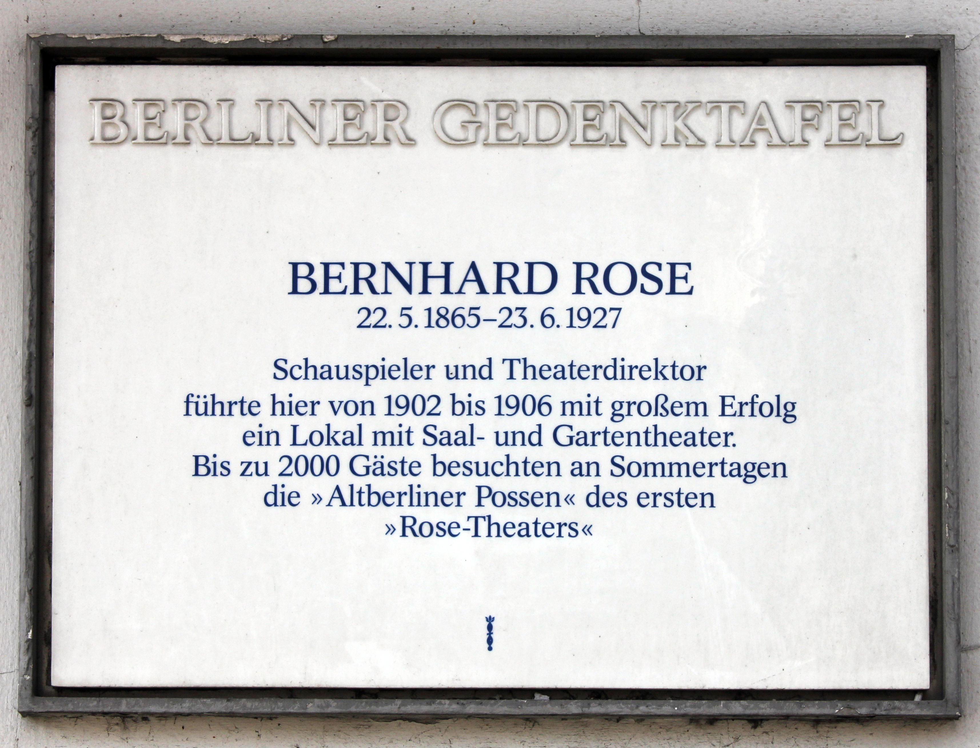 Berlin memorial plaque, Bernhard Rose, Badstraße 58, Berlin-Gesundbrunnen, Germany